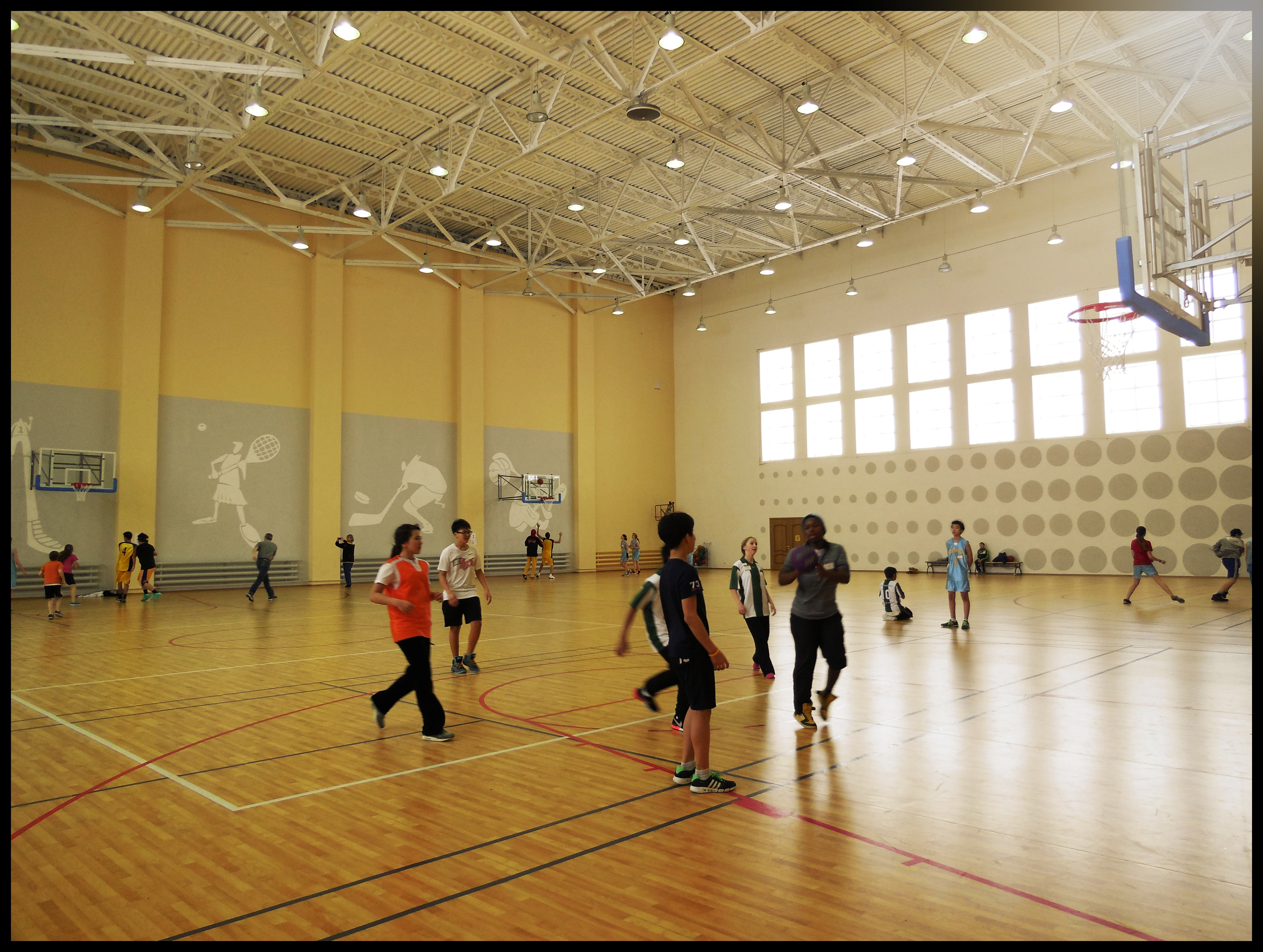 The indoors gymnasium of QSI Astana